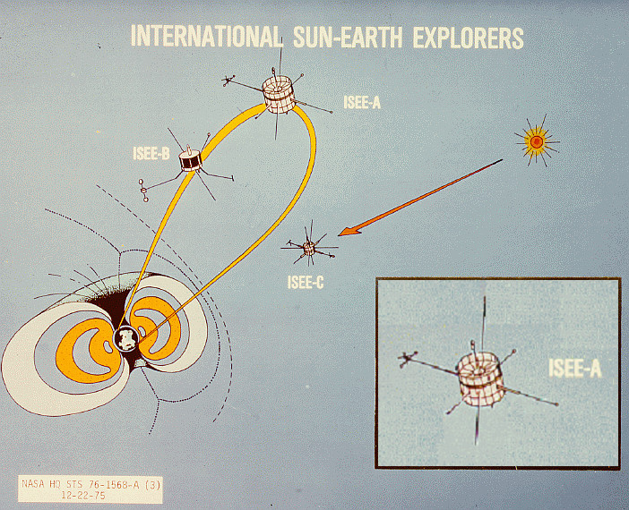 International Sun-Earth Explorer 1 (detail view) with orbit